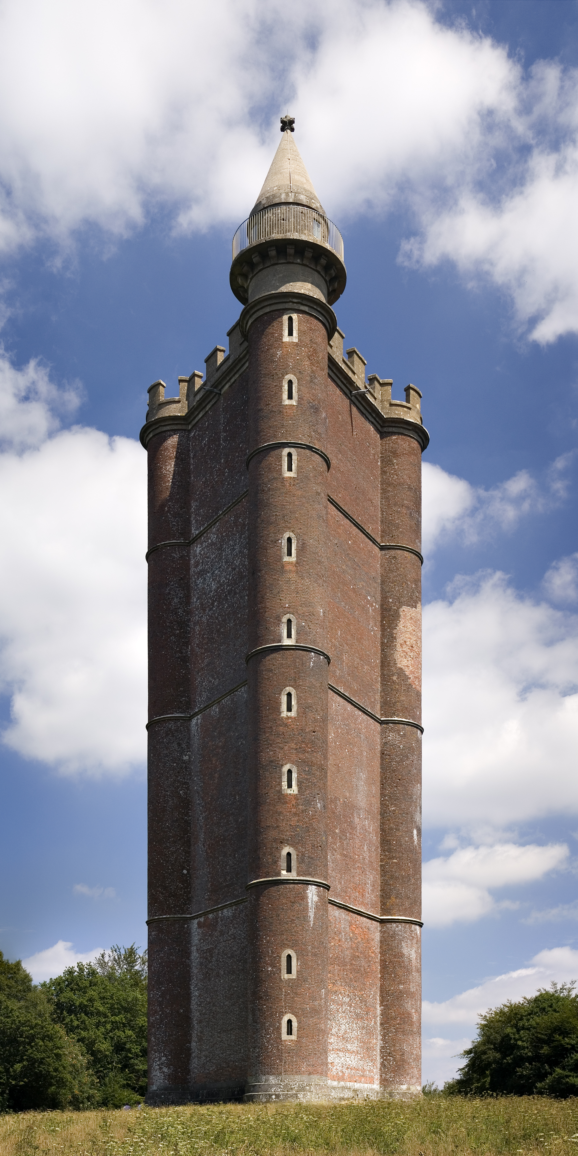 View of King Alfred's Tower from the west on a sunny summer day.